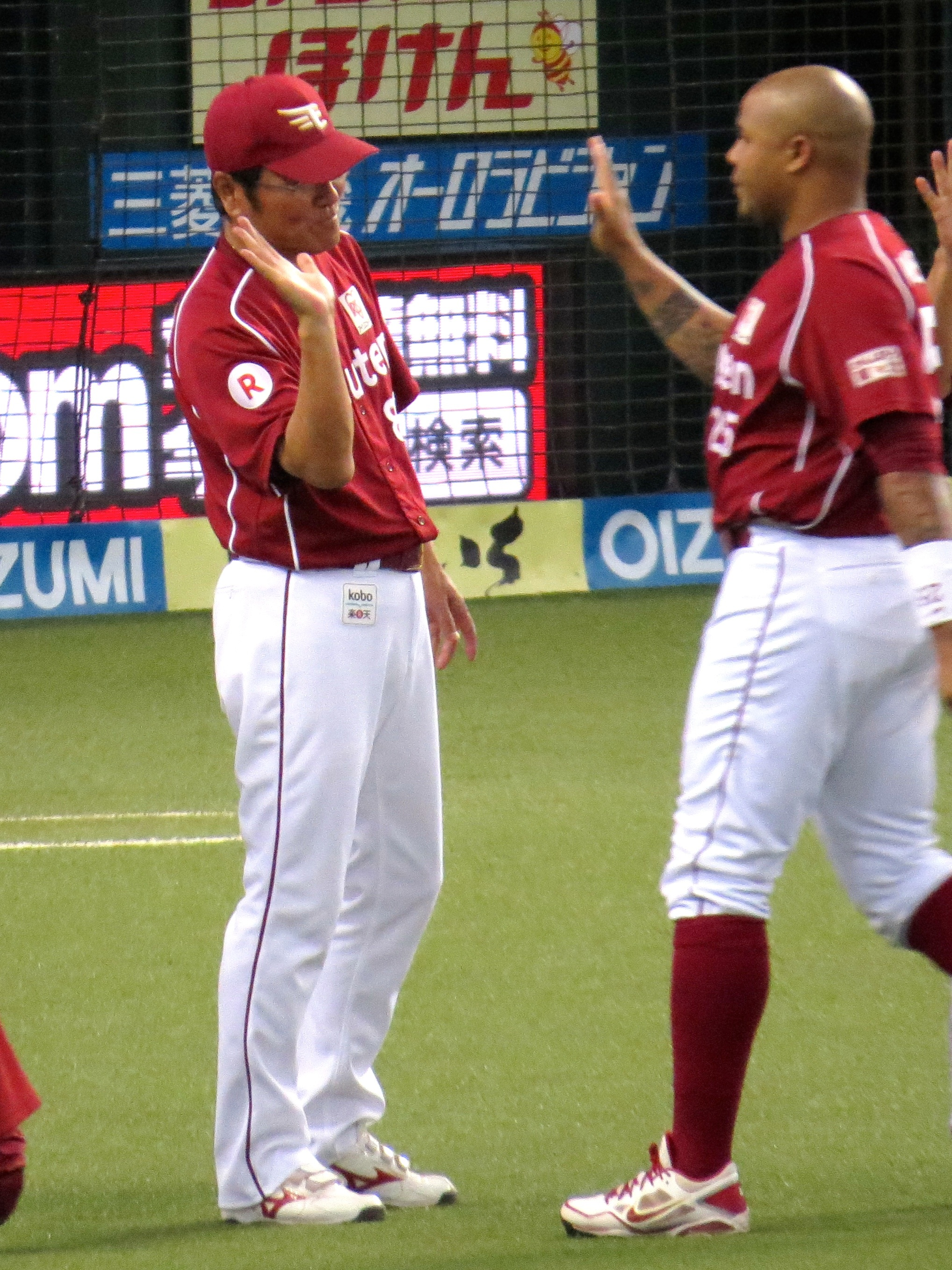 Tomio Tashiro (left), coach of the Tohoku Rakuten Golden Eagles, exchanging a high-five with Andruw Jones at Seibu Dome.